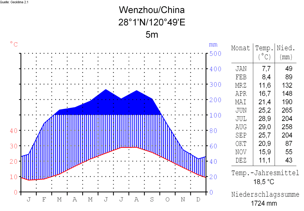 climate chart in the format by Walter and Lieth, metric, °Celsisus and millimeters, made with Geoklima 2.1